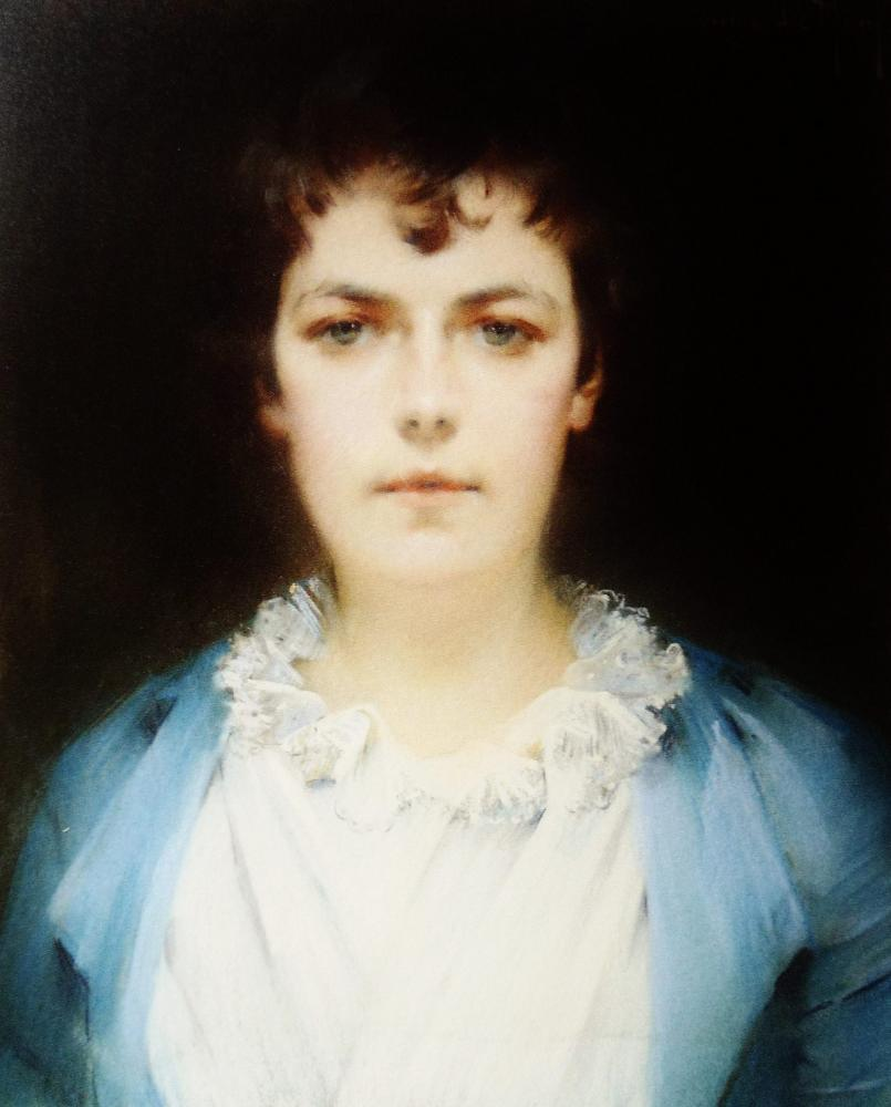 Pastel Self portrait of the Belgian artist Louise De Hem (1866-1922) - Ieper: Stedelijk Museum (Belgium)